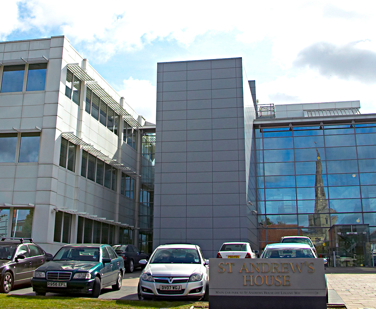 Cambridge Semiconductor office in St Andrew's Road, Cambridge, UK.